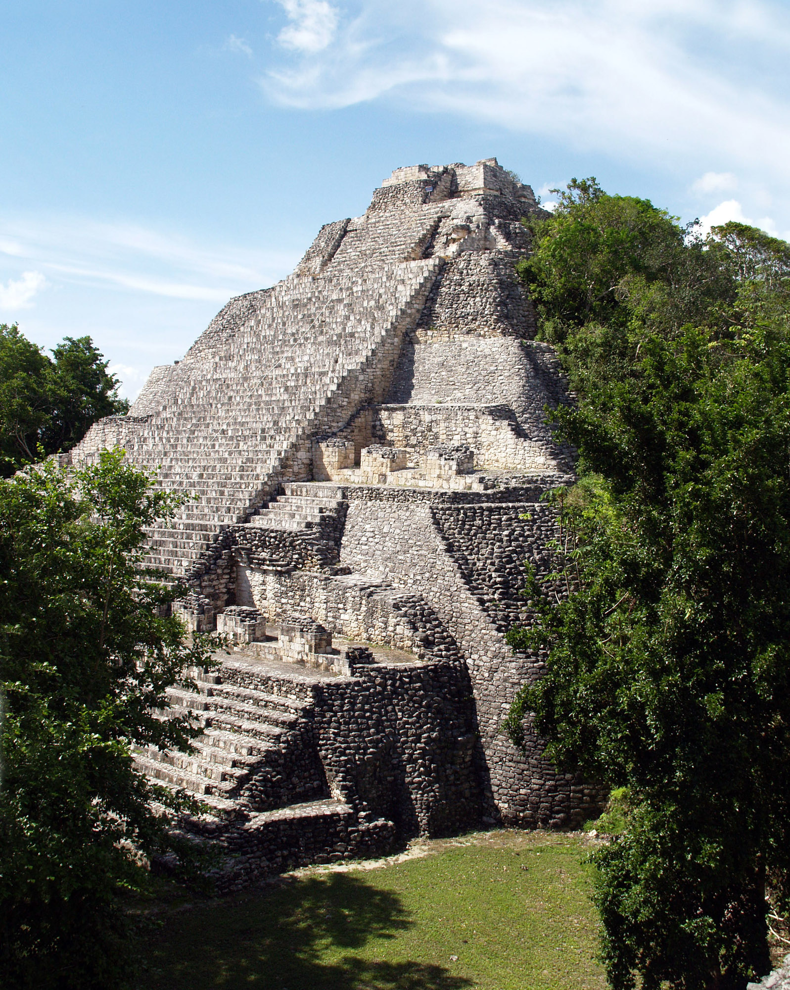 Structure IX, Site of Becán, Campeche, Mexico